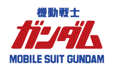 Logo of Mobile Suit Gundam (機動戦士ガンダム), also known as First Gundam, Gundam 0079 or simply Gundam '79).